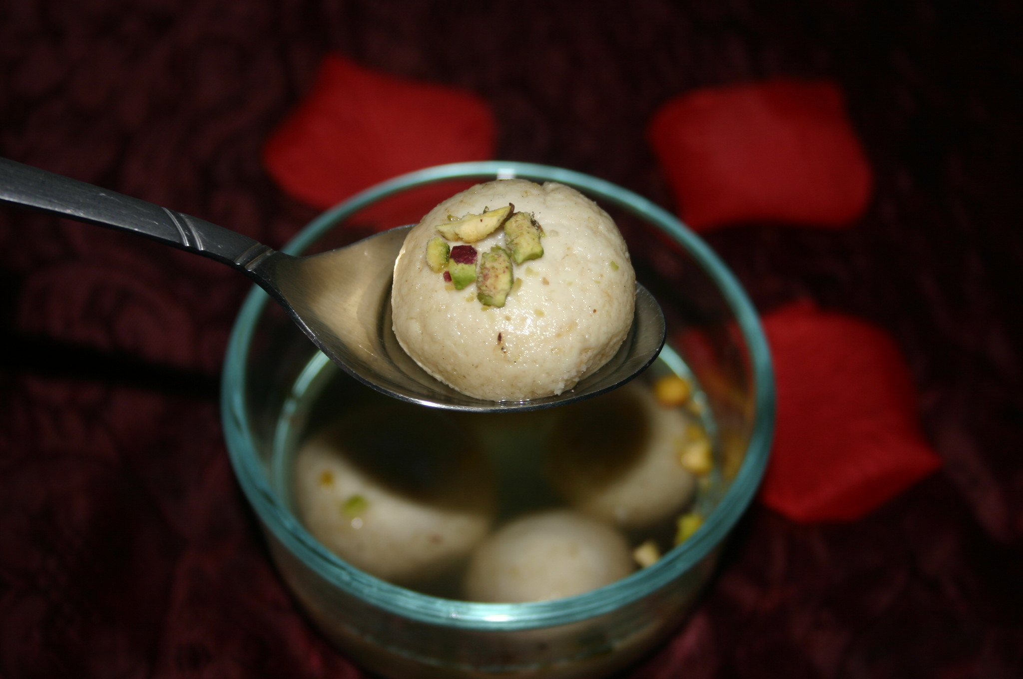 Rasgulla, a Bengali Sweet